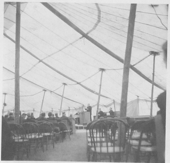 Caption: July, 1947. Conference at Fairview. Indiana-Michigan Conference. Citation: Mennonite Community Photographs, 1947-1953: Conference. HM4-134 Box 1 Photo 063-1. Mennonite Church USA Archives - Goshen. Goshen, Indiana.